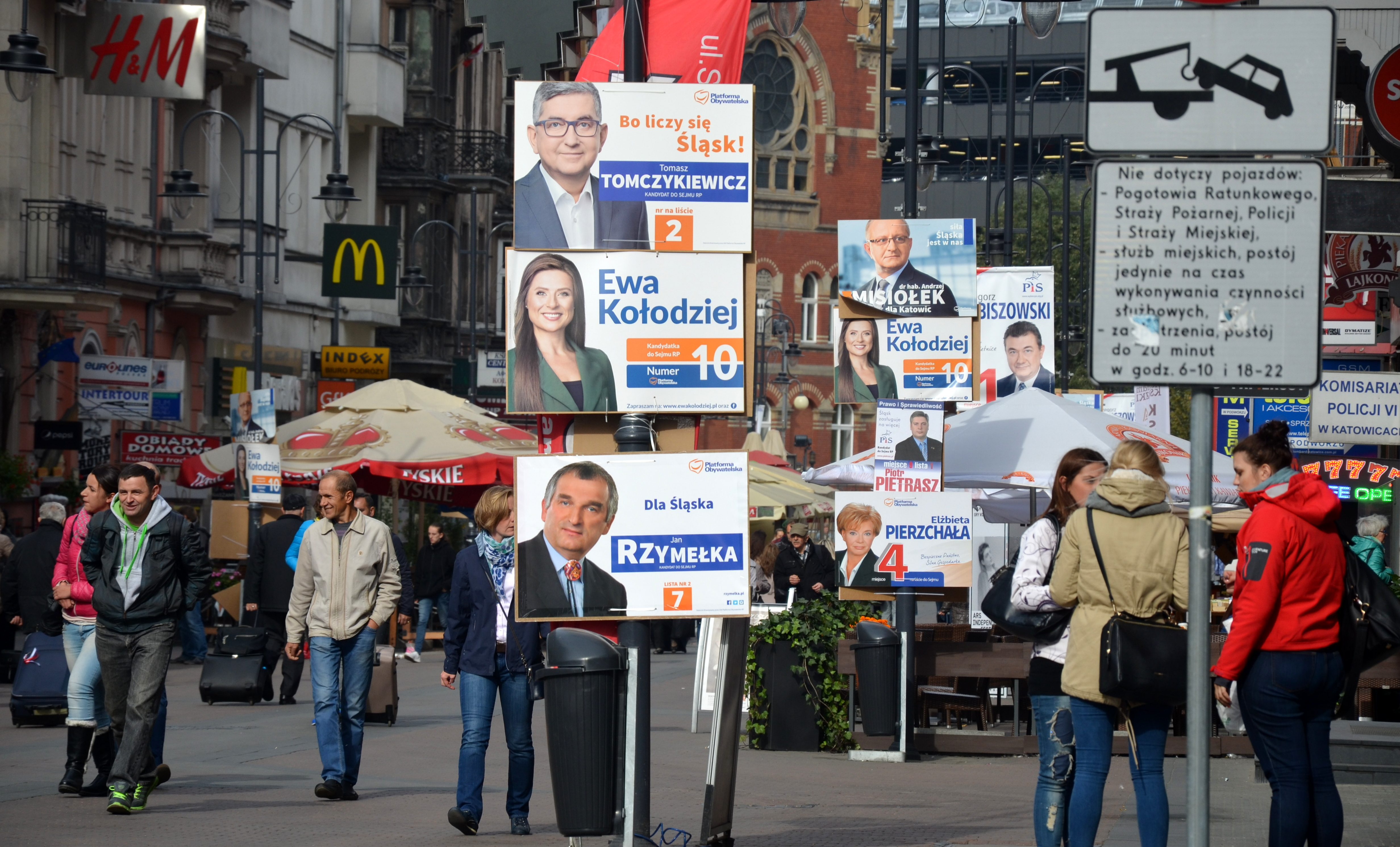 Polish parliamentary election, 2015